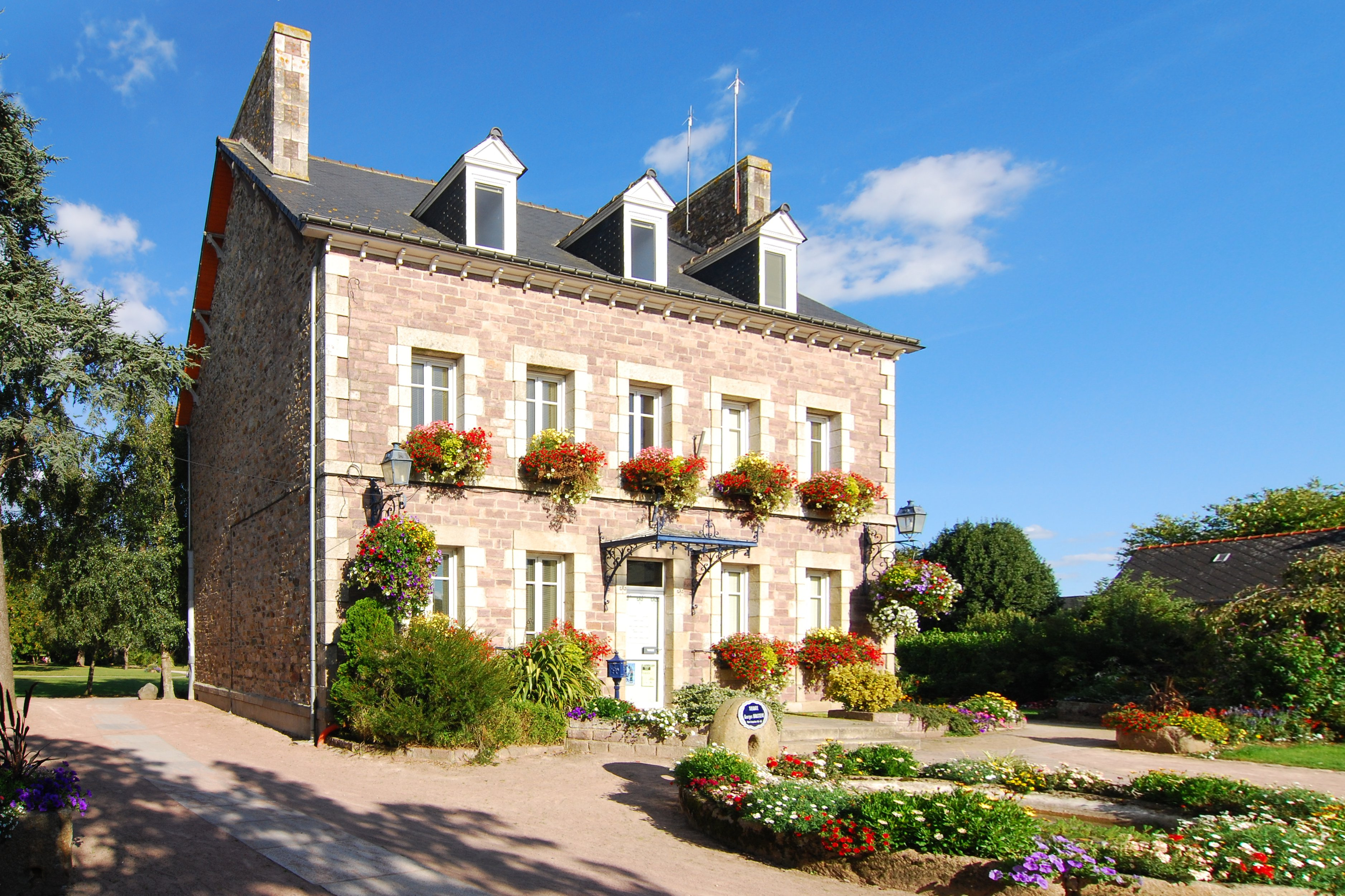 Three-quarter view of town hall in Lanvollon, Britanny, France.